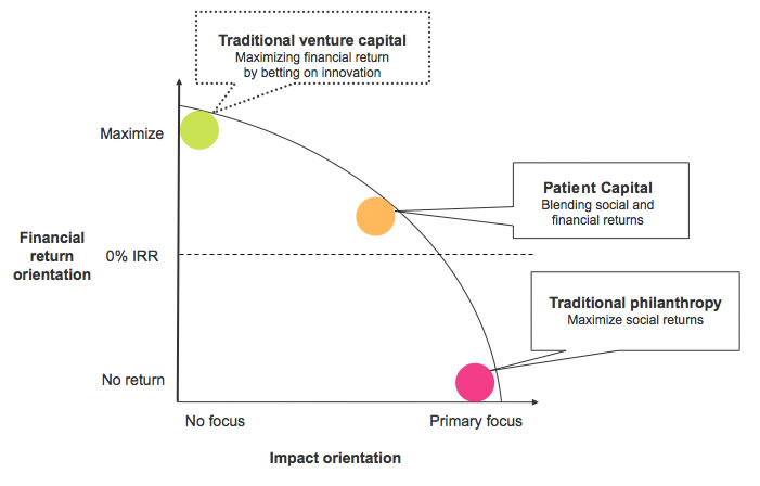 Graphic showing where patient capital fits on the spectrum of philanthropic and financial investments